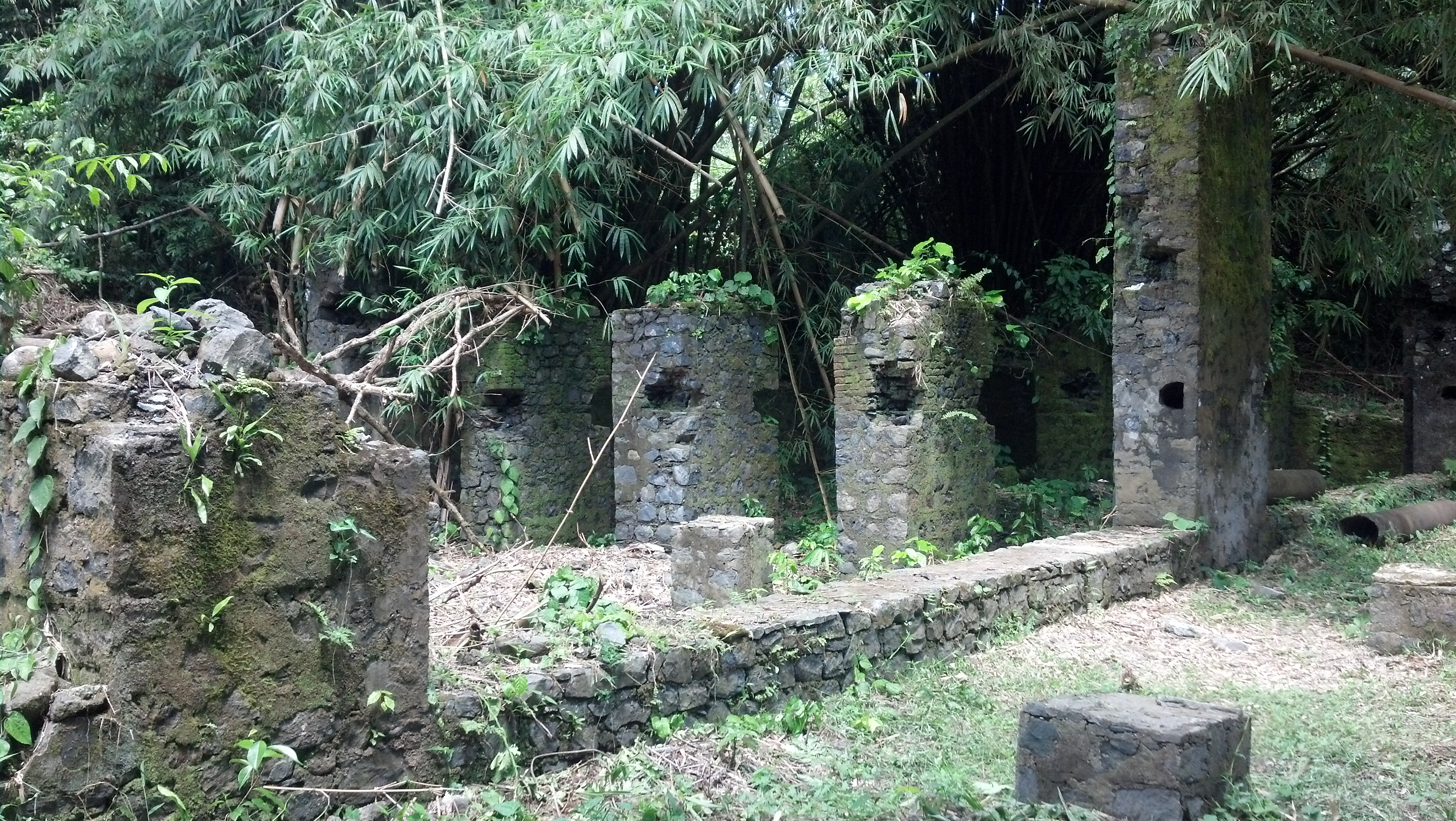 Bimbia Slave Port (Cameroon)